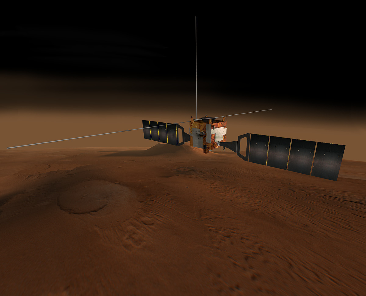 Illustration of ESA's Mars Express spacecraft